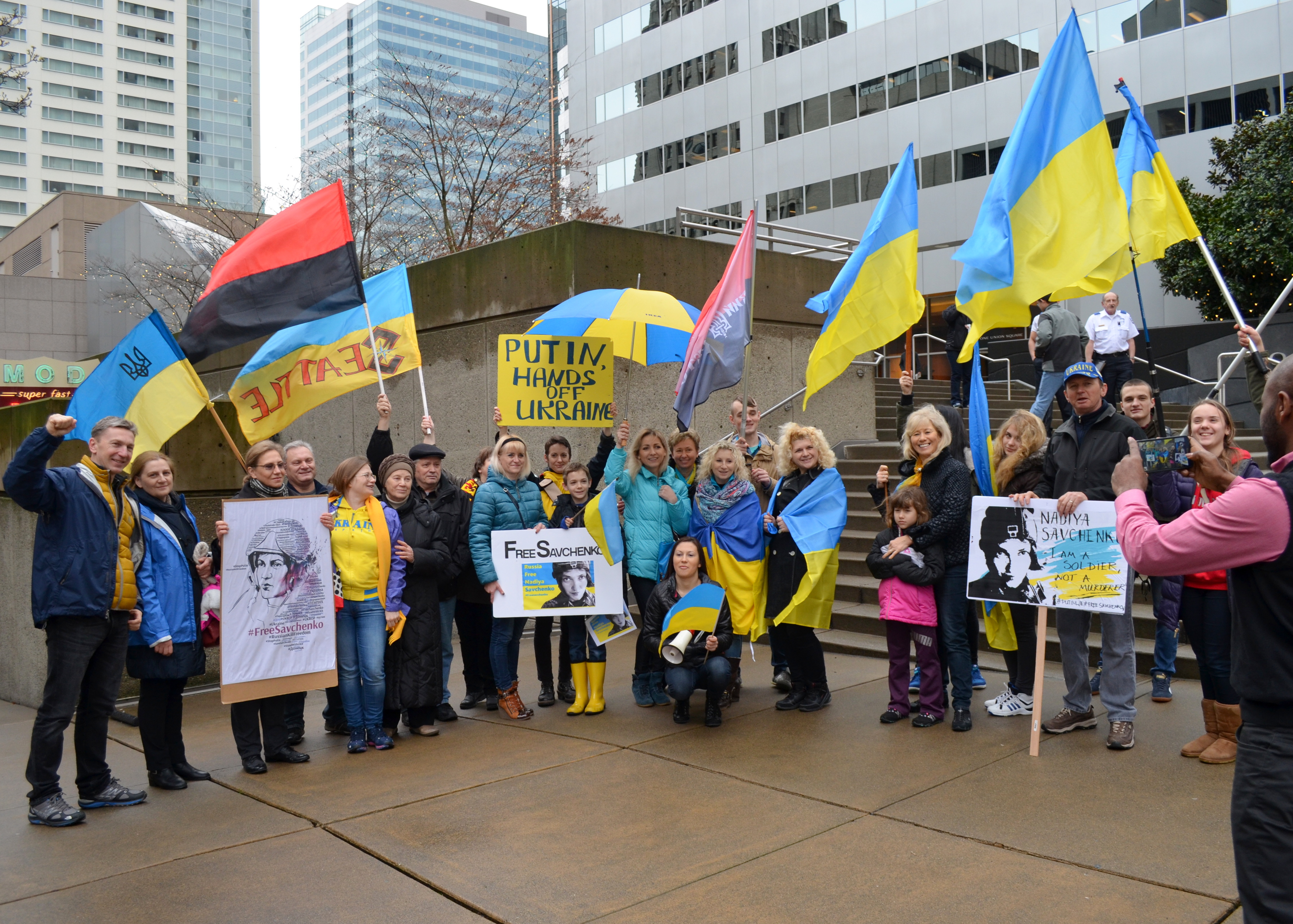 Today, we once again voiced our concerns in front of Consulate General of Russia. Our guests from Ukraine - families of soldiers who have died in the ATO zone - joined us for this rally. Together, we chanted: "Freedom to Savchenko", "Putin, hands off Ukraine", "Stop Putin, Stop War" and, of course, "Glory to Ukraine!" Once again, we prepared a letter to the Consul General of Russia. However, this time we were told by building security that the letters are not accepted in person, and we must contact the Consul through email or fax. In the end, we were able to deliver the letter to the Consulate, and watched as the letter was demonstratively torn without reading before our eyes. We will send the letter in email, and we ask you to join us. Please email the Consul at and protest the actions of Russian government in Ukraine. Let us give the Consul what he asked for - our thoughts about his government through emails, thousands of them.